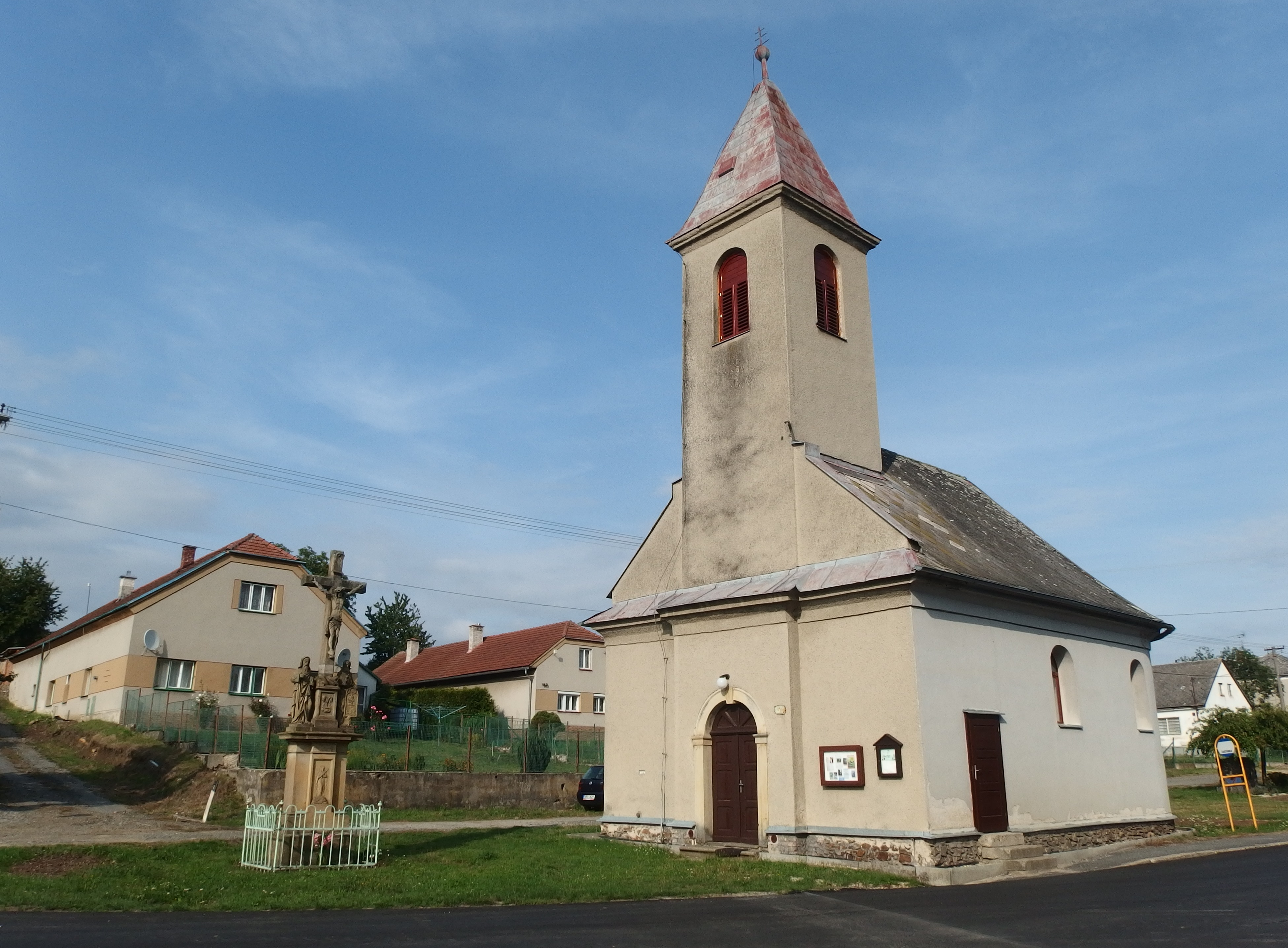 Jestřebí, Šumperk District, Czechia.